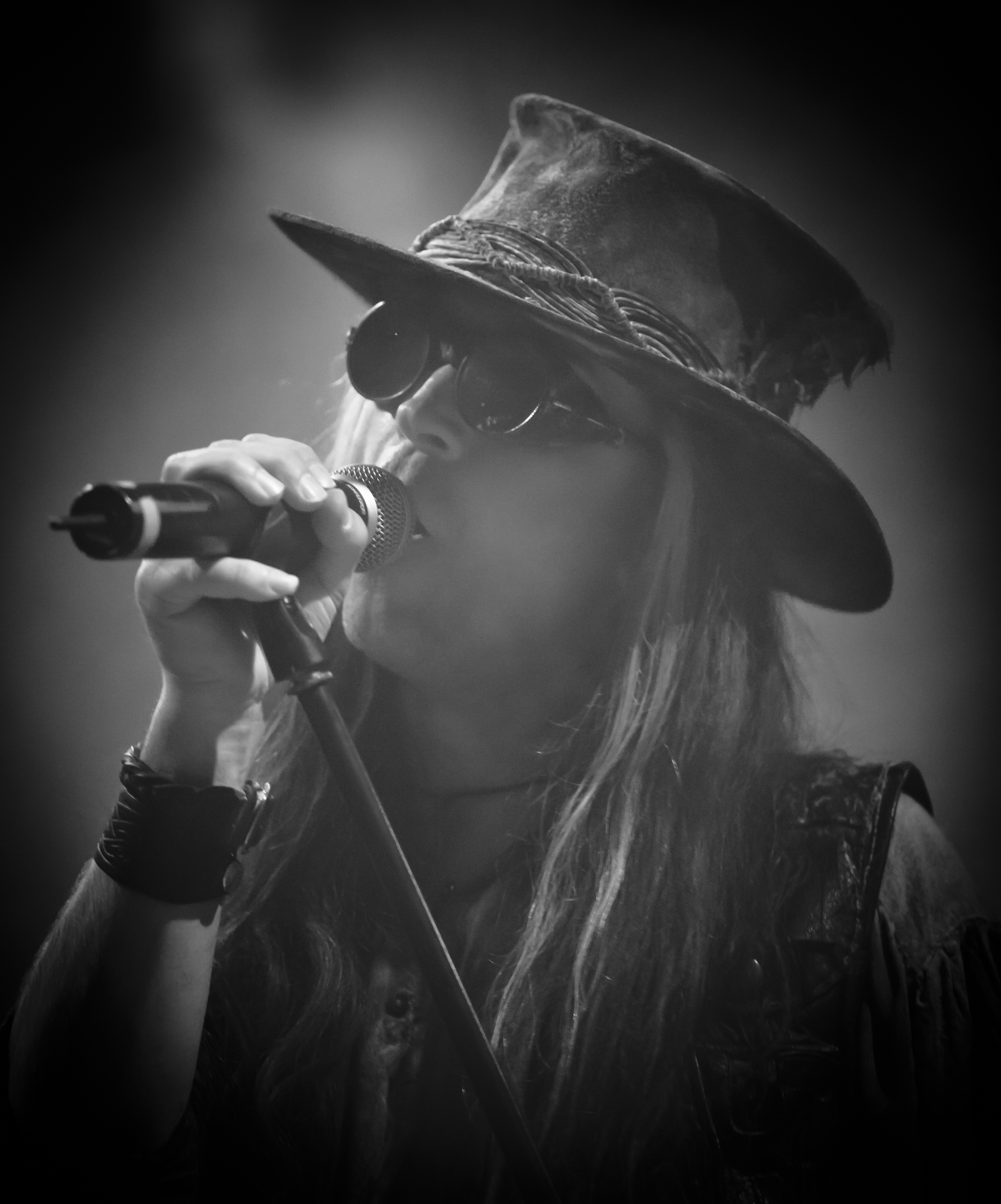 Taken at the Wave Gotik Treffen festival, Leipzig, Germany, June 2011 Bands included are: Das Ich, Love Like Blood, Dornenreich, Lake of Tears, Tiamat, Killing Joke, Fields Of The Nephilim, Coppelius, Medievel Babes, Eluveitie